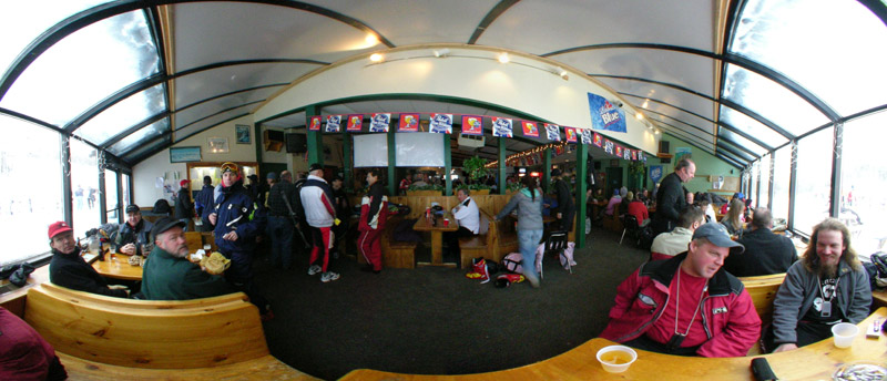 Panoramic image inside the T-Bar at Marquette Mountain, Marquette, MI in 2006. Photo by Richard C. Drew